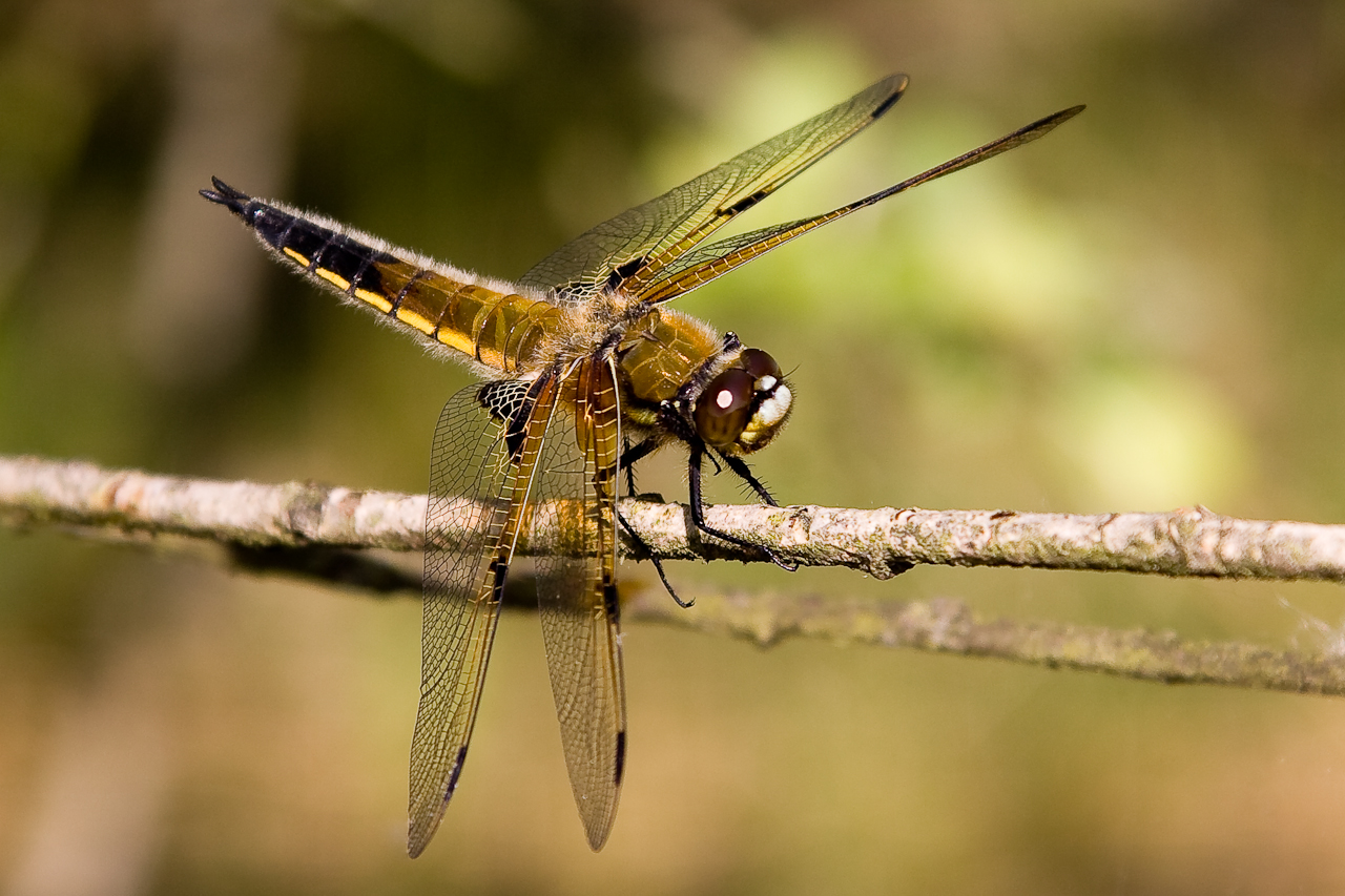 Real dragonfly, Four-spotted Chaser (Libellula quadrimaculata), male